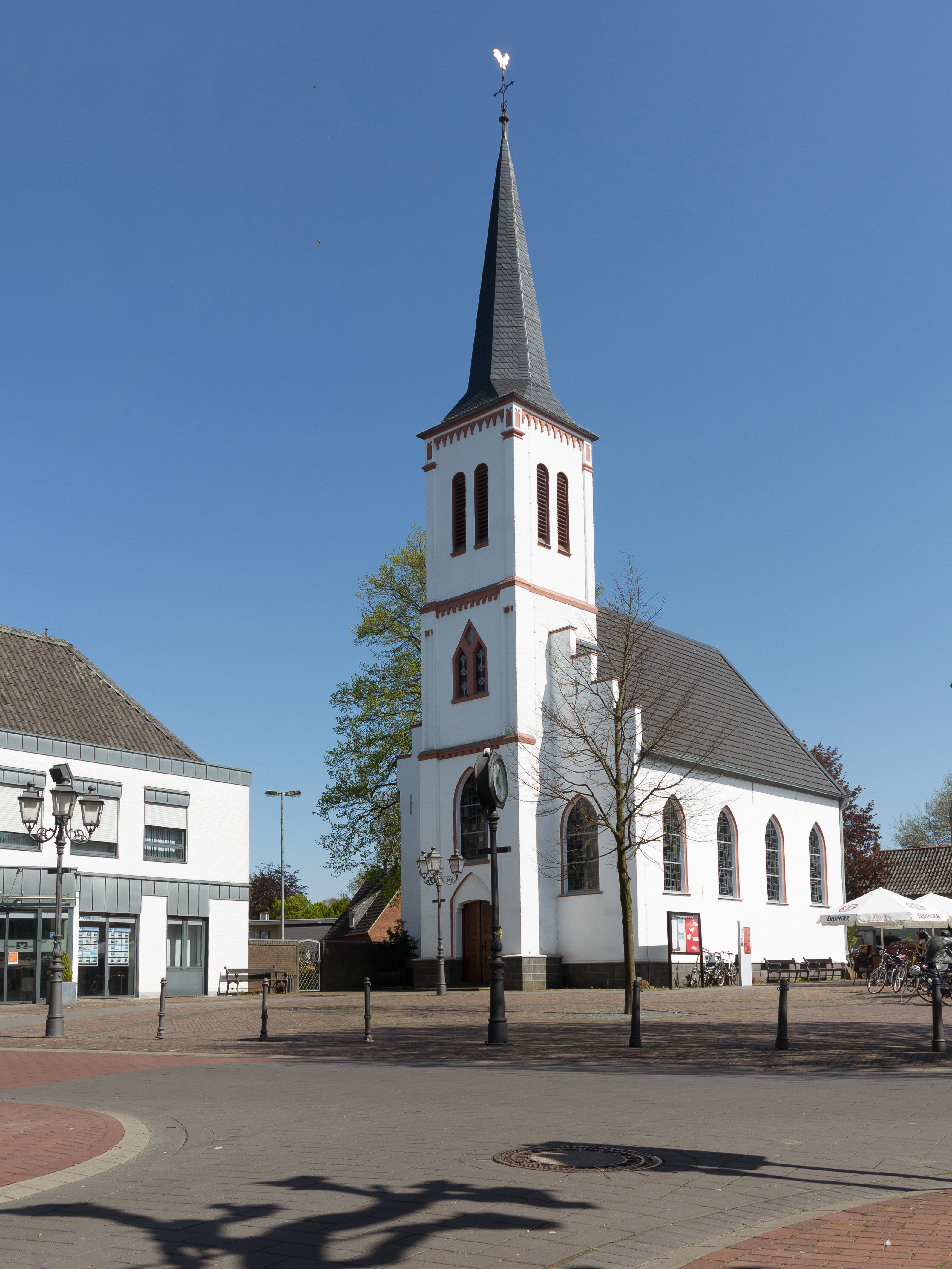 Uedem, reformed churchThis is a photograph of an architectural monument., no. A-04-03-86